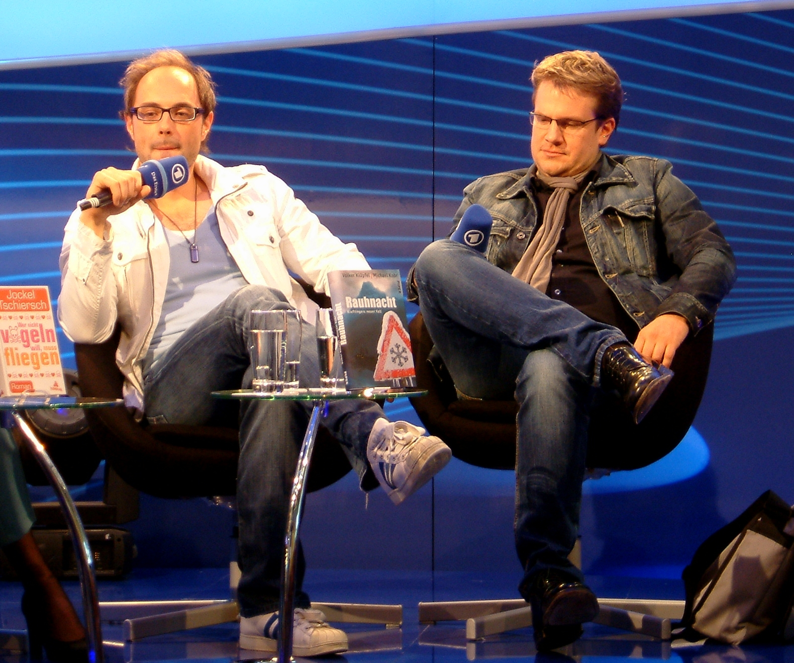 The authors Michael Kobr and Volker Klüpfel during an interview at the Frankfurt Book Fair 2009. I took this snapshot sitting in the audience.